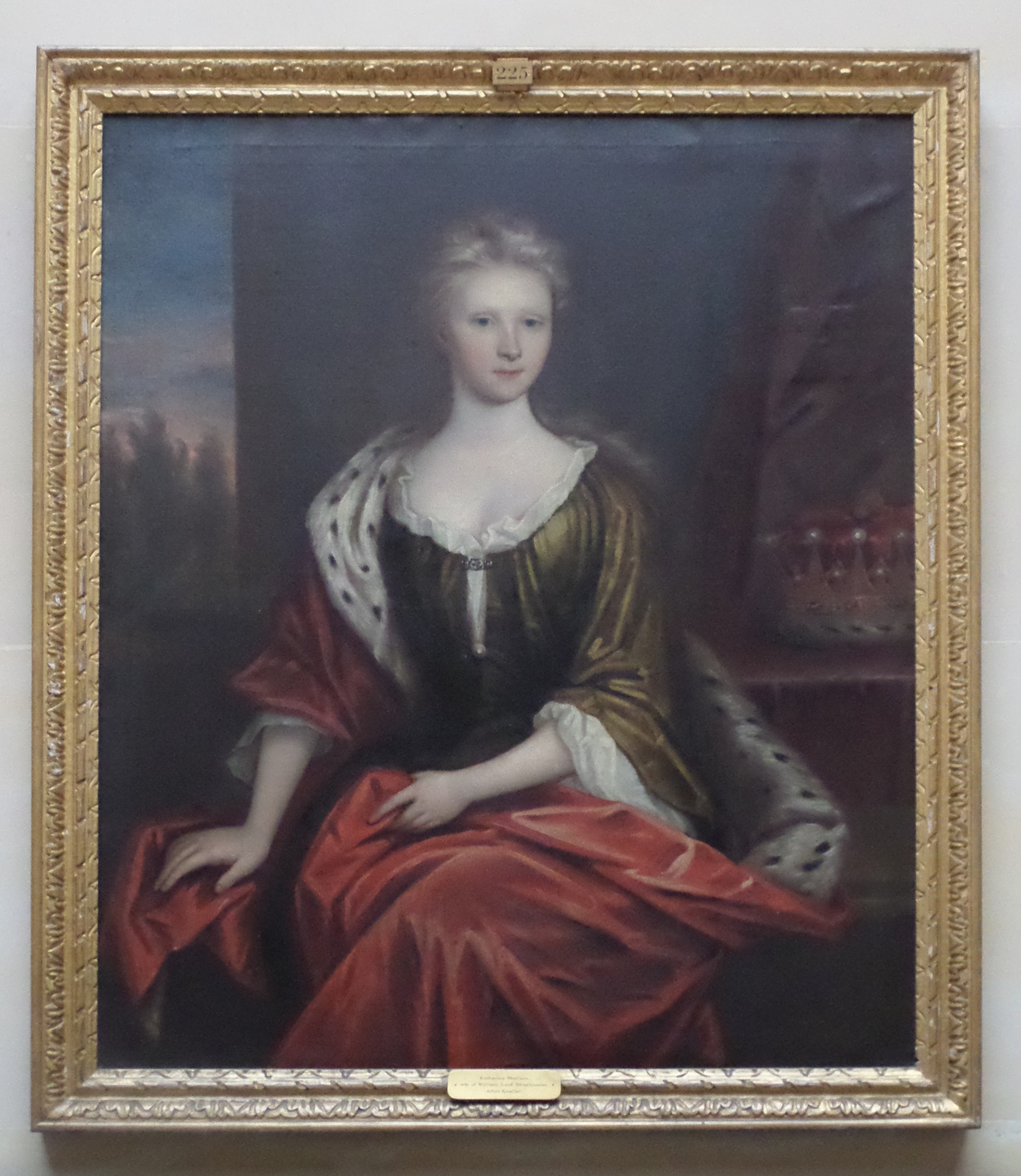 Katherine Morison, wife of Lord Strathnaver. Painting, possibly a copy, displayed in Dunrobin Castle in Sutherland, Scotland.